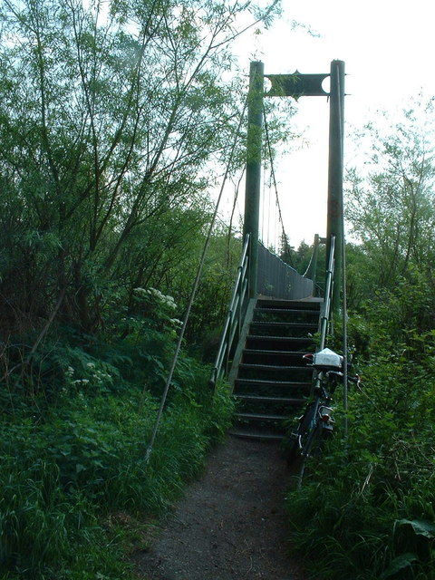 Footbridge over the River Carron